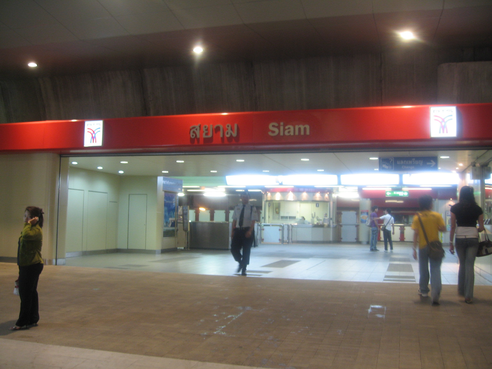 BTS Siam Station (Bangkok Skytrain).